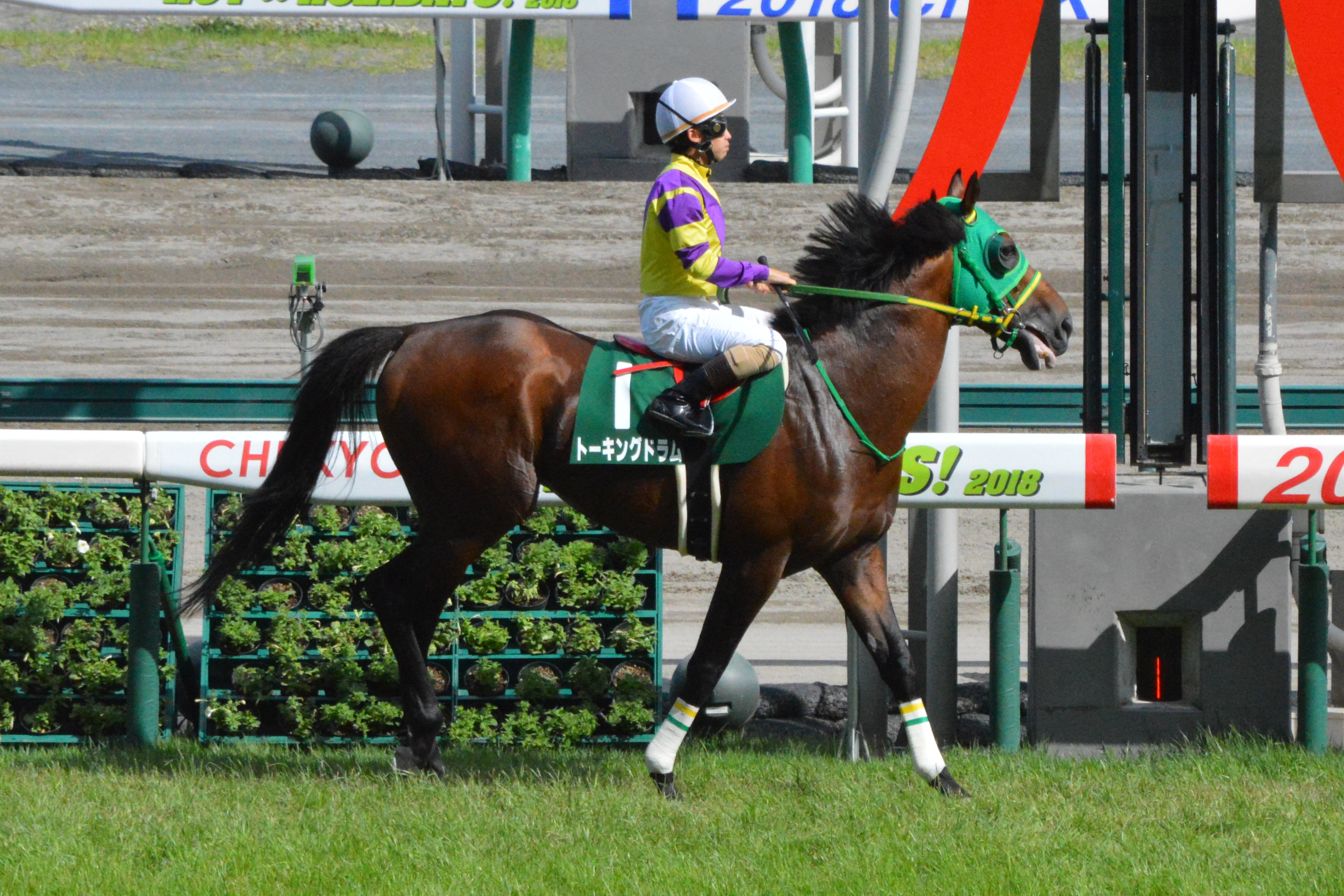 Japanese race horse Talking Drum at Chukyo racecourse. Chukyo (JPN) 1 Jul 2018 CBC Sho Handicap (Grade 3) (Turf) (3yo+) 6f Firm RankHorse NameOddsAgeWgtJockeyTrainer1stAres Barows (JPN)81/10H68-7Yuga KawadaKoichi Tsunoda6thTalking Drum (JPN)103/1H88-9Fuma MatsuwakaMakoto SaitoOthers are omitted. (18 horses entered in a race.)